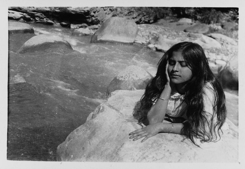 Attia Hussein aged 15 in 1928. taken in the Shivalik mountains in Northern India. The photograph was maybe by her friend, Mahmudazaffar.